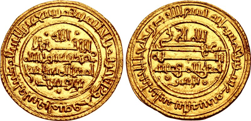 ISLAMIC, al-Maghreb (North Africa). Almoravids (al-Murabitun). 'Ali ibn Yusuf. AH 500-537 / AD 1107-1142. AV Dinar (26mm, 3.97 g, 8h). Isbiliya (Seville) mint. Dated AH 520 (AD 1126/7). Hazard 219; Lavoix 579; Album 466.1; ICV 690. EF, lustrous.